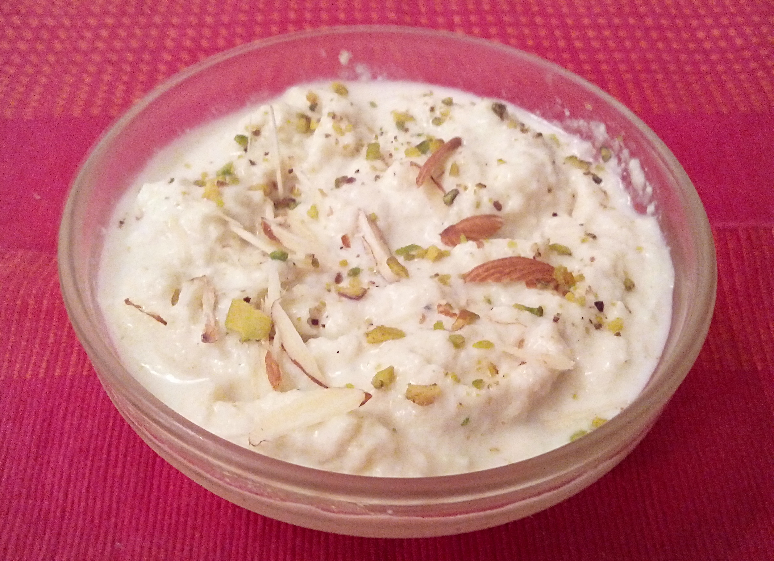 It is one of most popular desserts of North India. Made by simmering milk and collecting the cream at sides then adding sugar to sweeten and it is often garnished with chopped nuts. It is also used as a topping for many other Indian sweets.